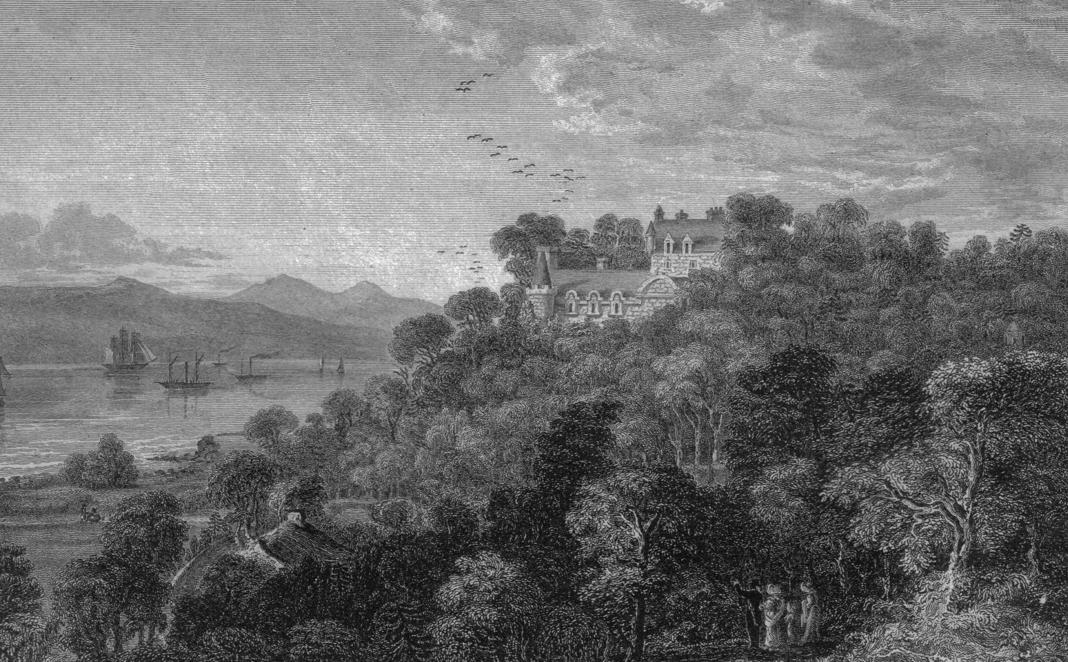 Skelmorlie Castle in 1829, Largs, North Ayrshire, Scotland